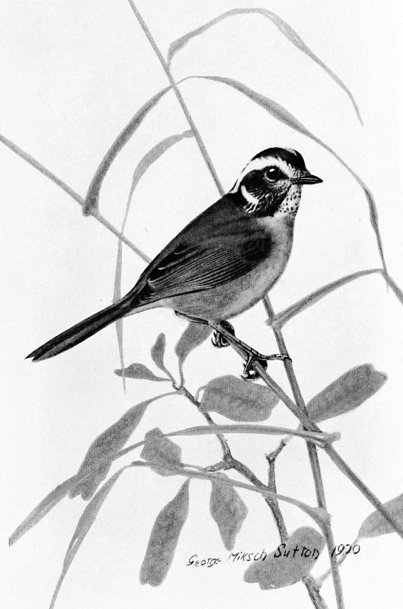 Hemispingus basilicus = Basileuterus basilicus (Santa Marta Warbler)